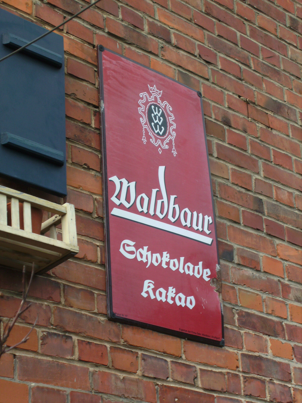 Waldbaur publicity at a wall in Besigheim (Germany)